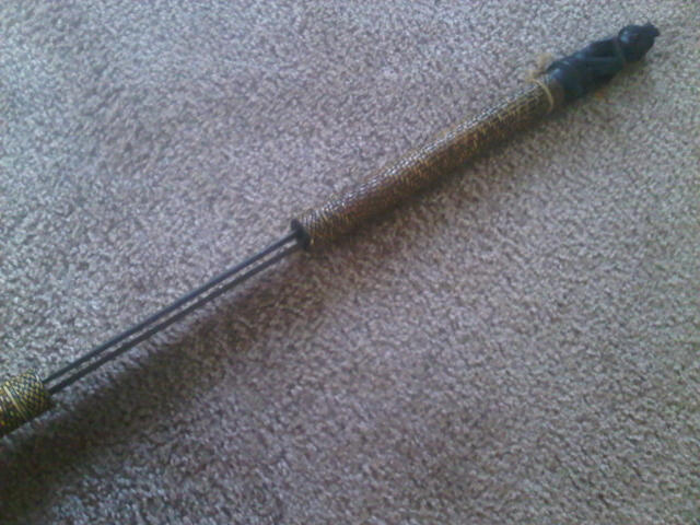 Partially unsheathed, this walking stick shows the two blades hidden within the stick itself.